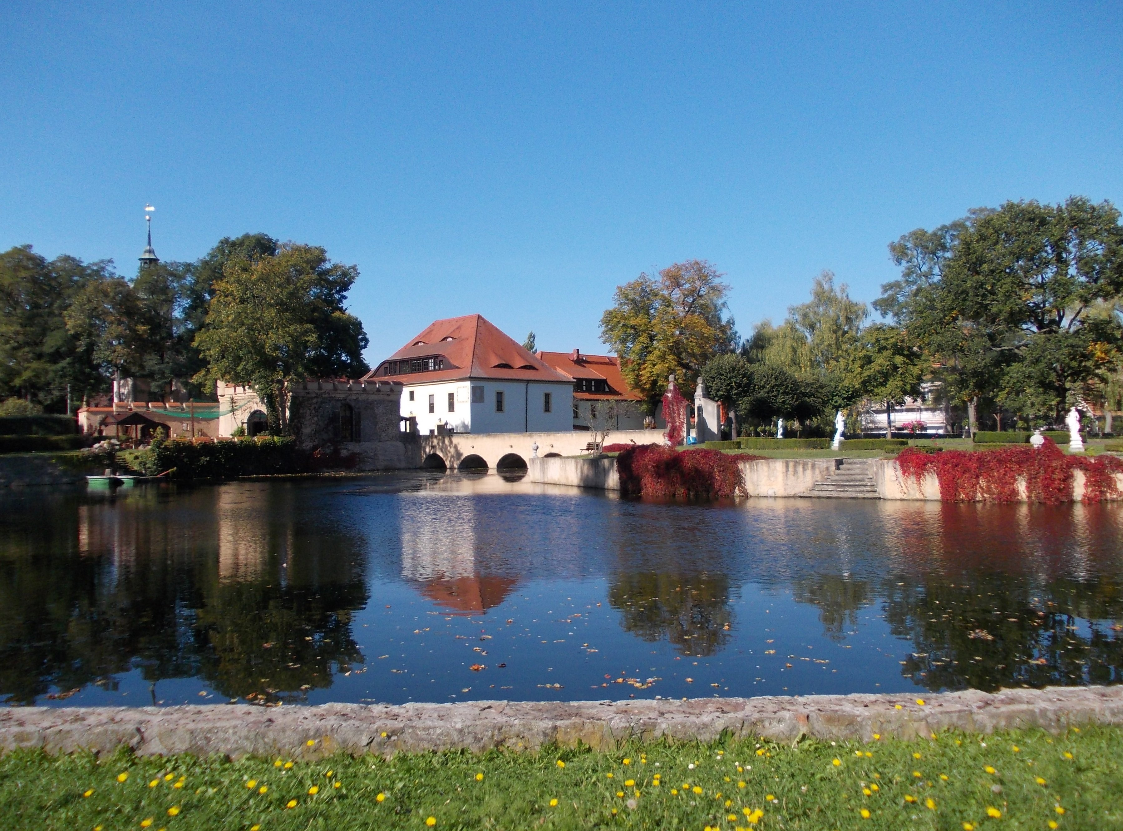 In the gardens of Lampertswalde castle (Cavertitz, Nordsachsen district, Saxony)